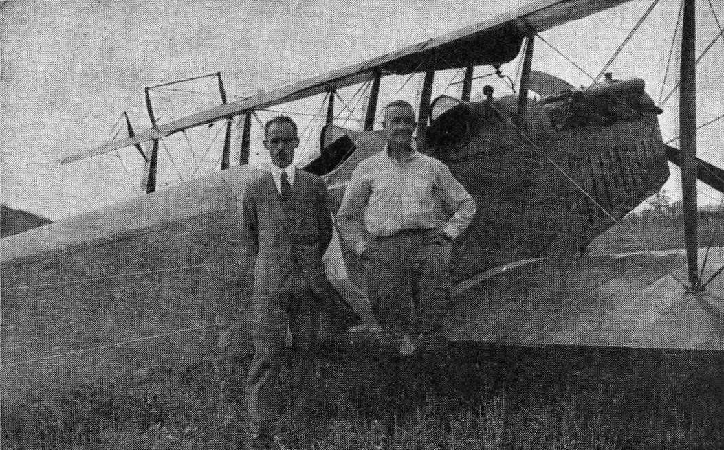 World first crop dusting experiment (August 3rd 1921, Troy, Ohio) using an aircraft - Left: McCook Field engineer Etienne Dormoy (left) who designed the hopper and operated it during the flight ; Right: Lieut. J.A. Macready who piloted the plane (Curtiss JN-6).